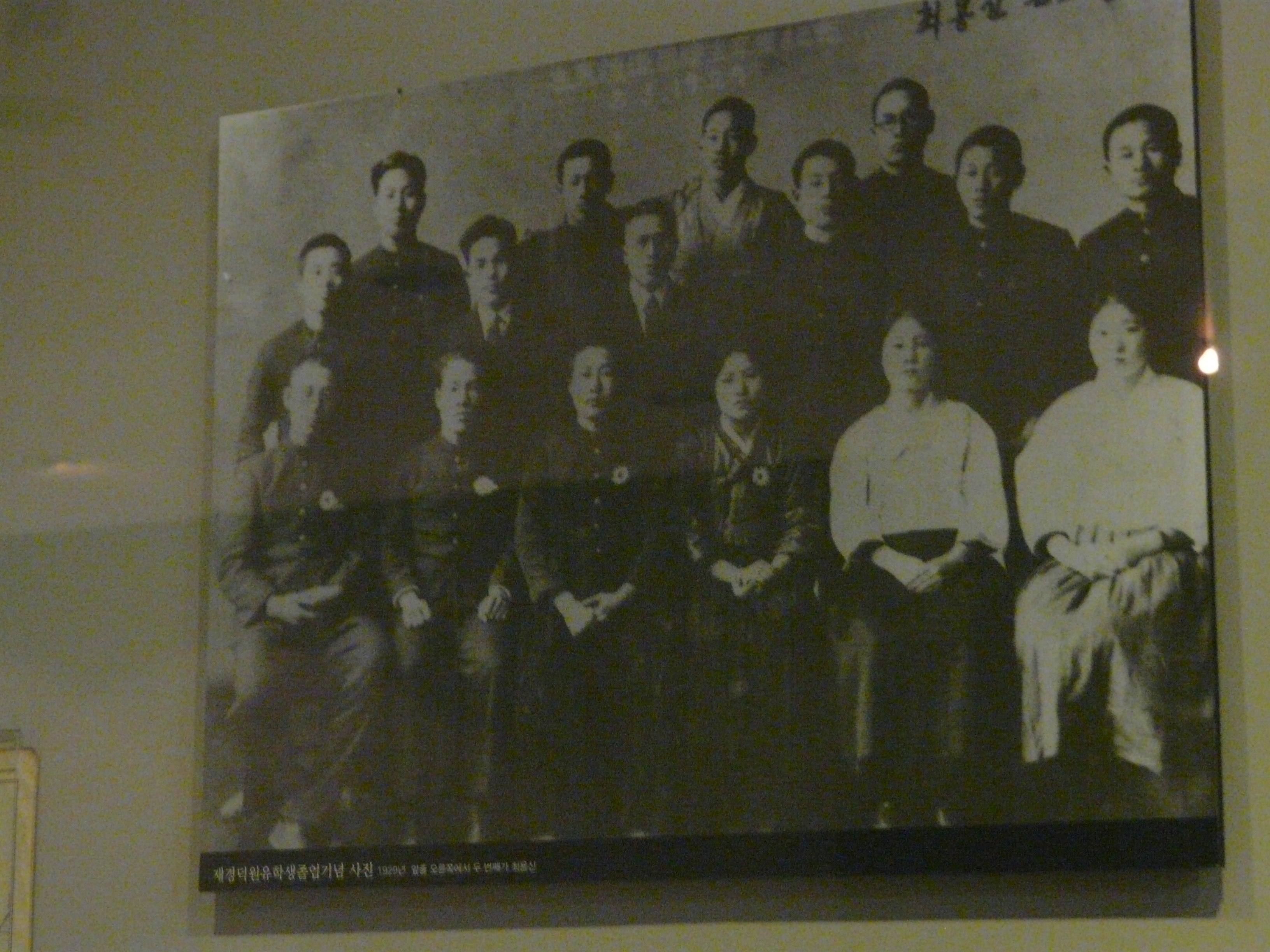 Description of the memorial: [1] Person's name spelled as Yongshin and Yongsin. "Choi Yongshin Memorial Hall" appears on my tourist map. Korean is 최용신기념관대등표제 ?